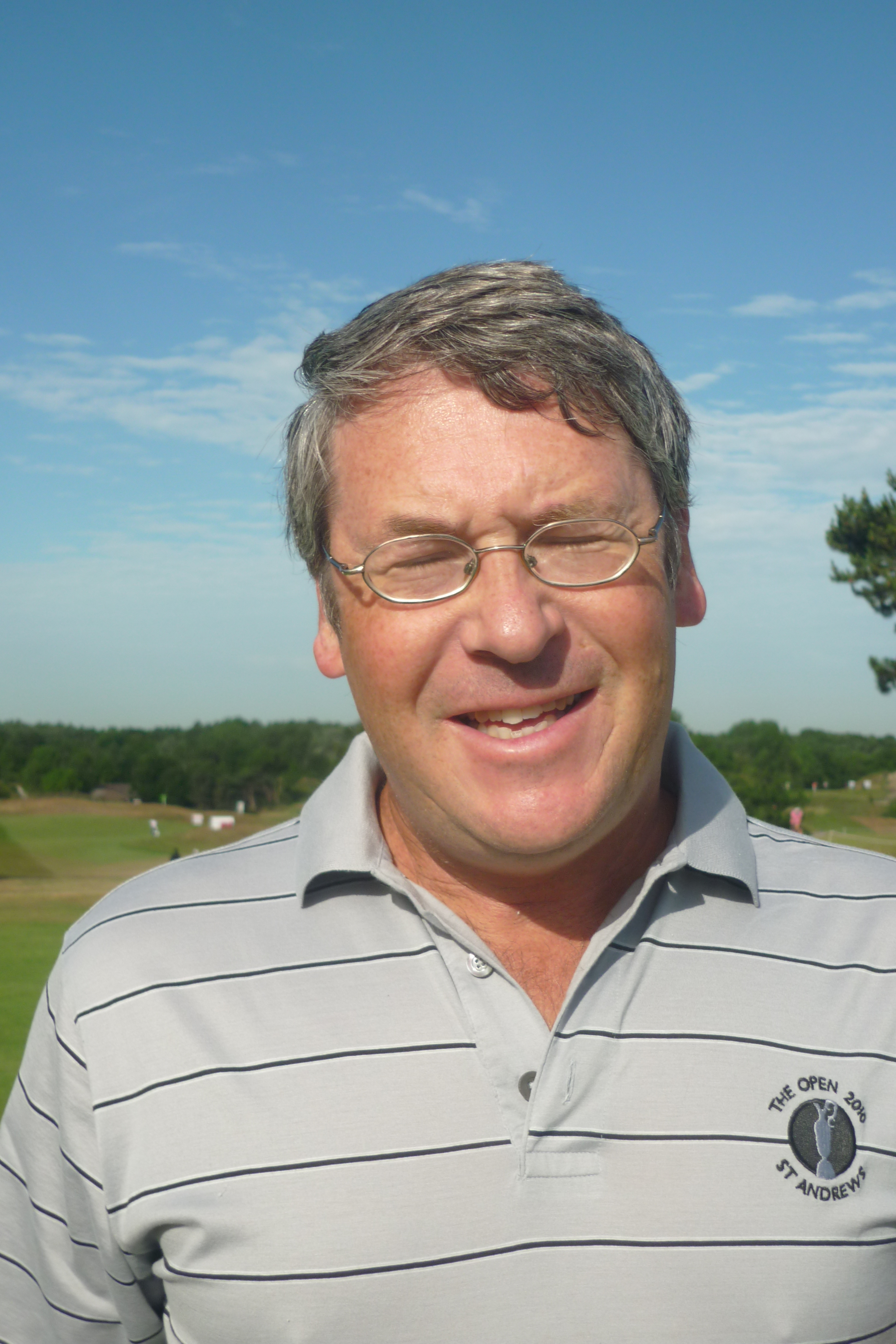 Stephen Bennet at the Dutch Seniors Open